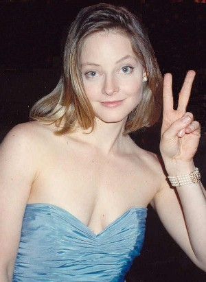 Jodie Foster at the Academy Awards. Photo taken at 61st Academy Awards March 29, 1989 - Governor's Ball